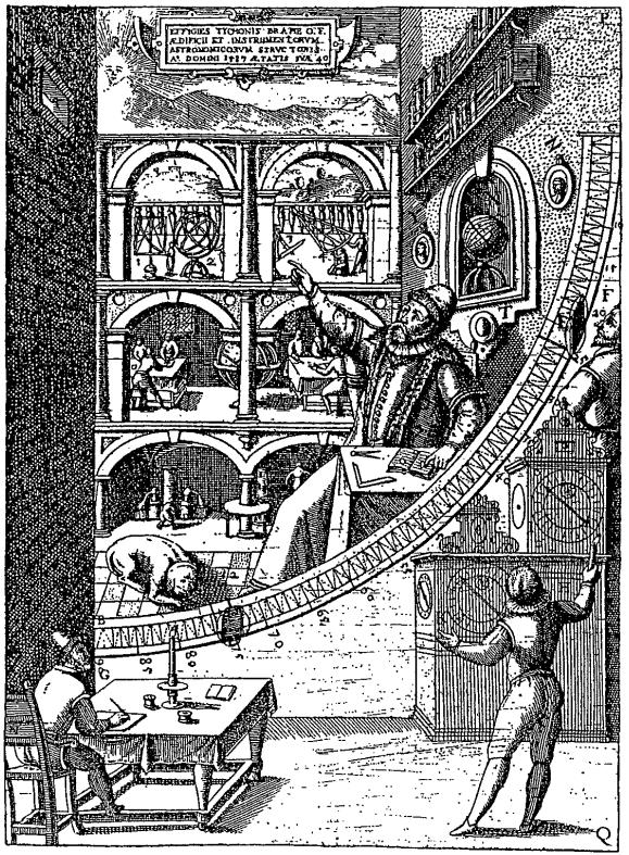 Tycho Brahe's mural quadrant in Uranienborg (Uraniborg). The quadrant (radius c. 194cm) was made from brass and affixed to a north-south oriented wall. The observer (right) views a star through the opposite opening (upper left) to determine the star's altitude as it passes through the meridian. The area above the quadrant is filled with a mural painting. See Brahe's original description of the instrument.